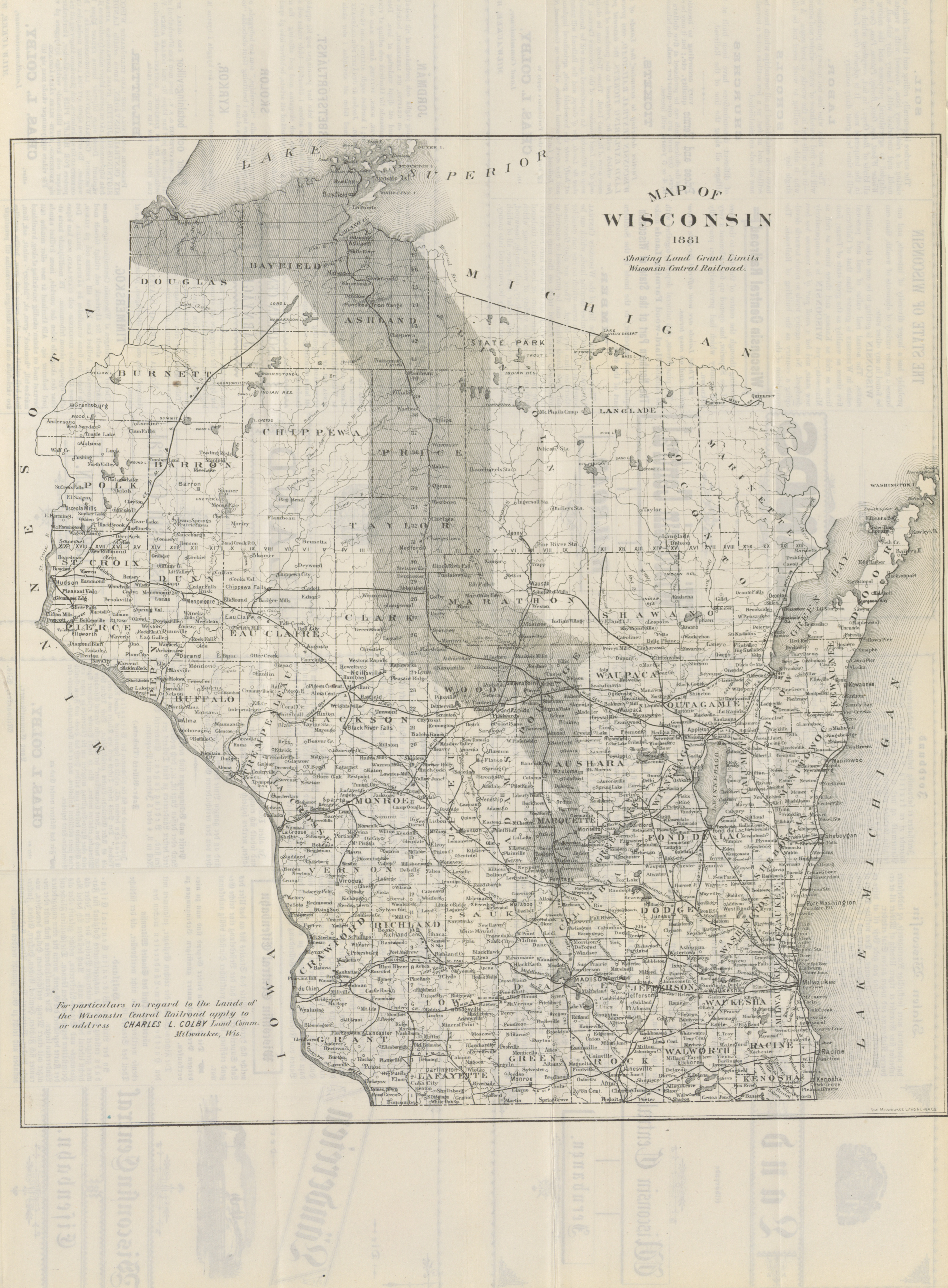 Image taken from: Title: "Wisconsin Central Railroad Lands" Author: WISCONSIN CENTRAL RAILROAD COMPANY Shelfmark: "British Library HMNTS 10408.ee.18.(7.)" Page: 11 Place of Publishing: Milwaukee, Wis Date of Publishing: 1881 Publisher: C. Colby